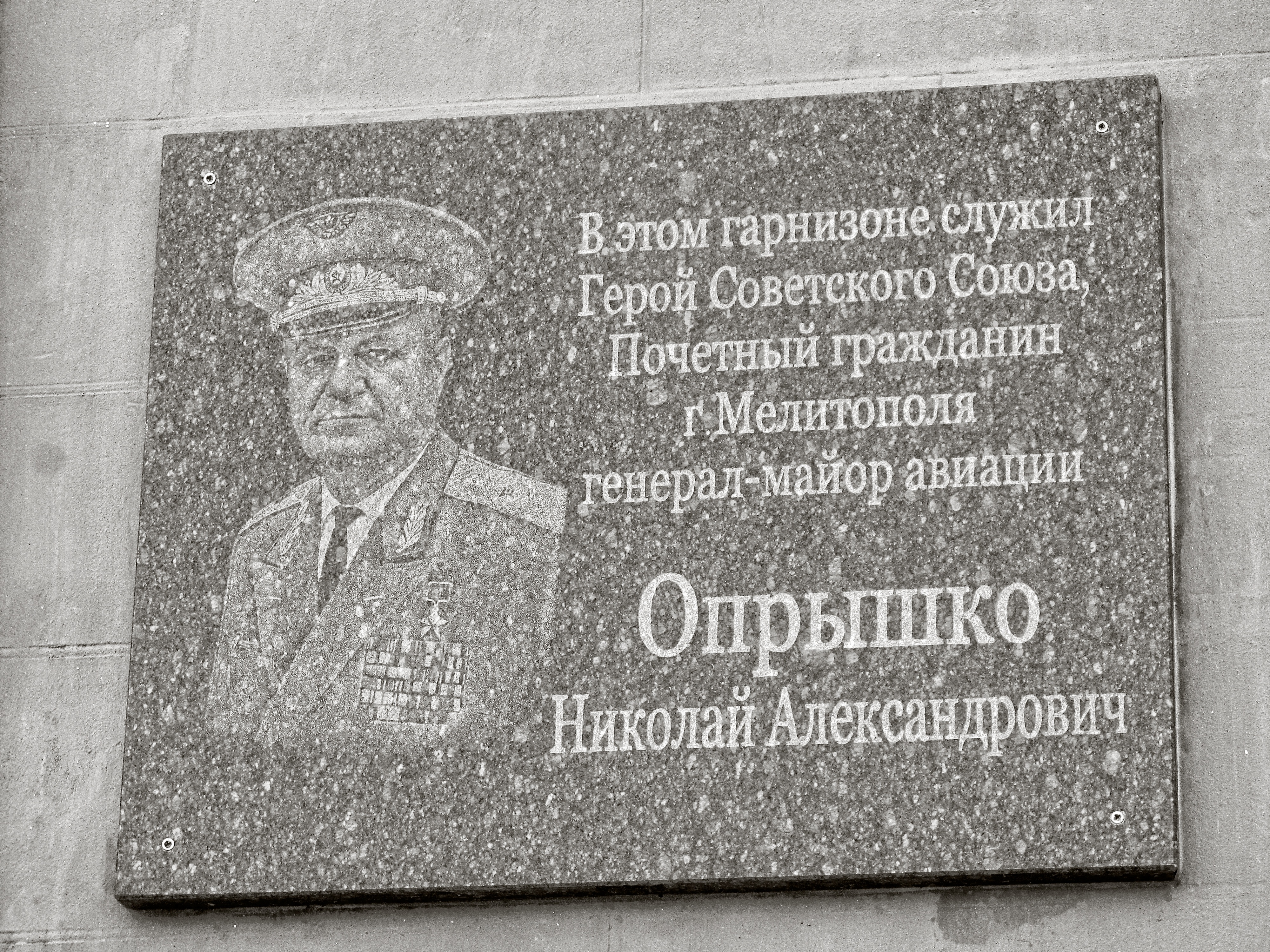 Gvardeyskaya Street (Melitopol, Zaporizhia Oblast, Ukraine).